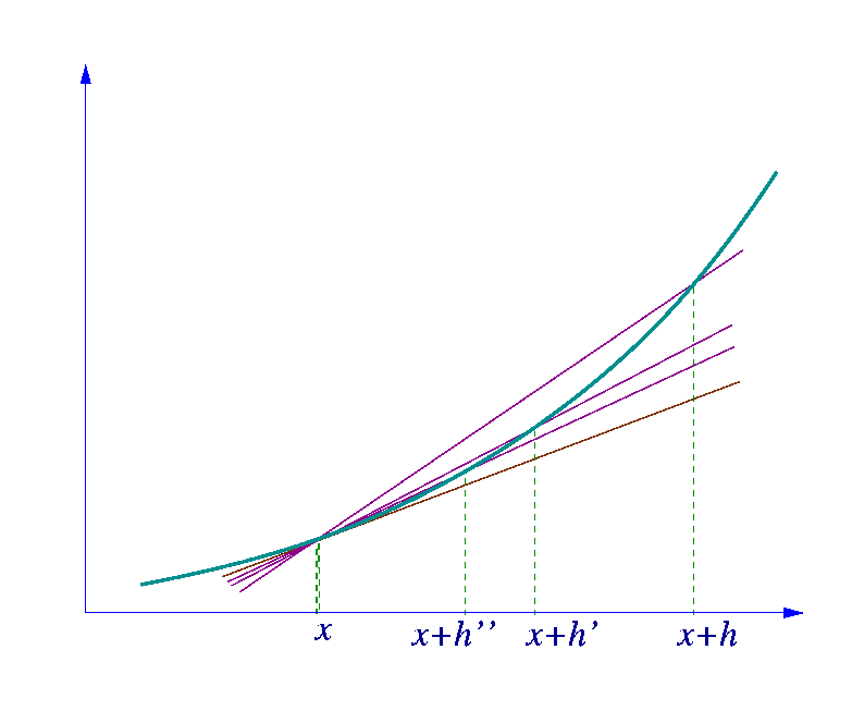 Limit of secants